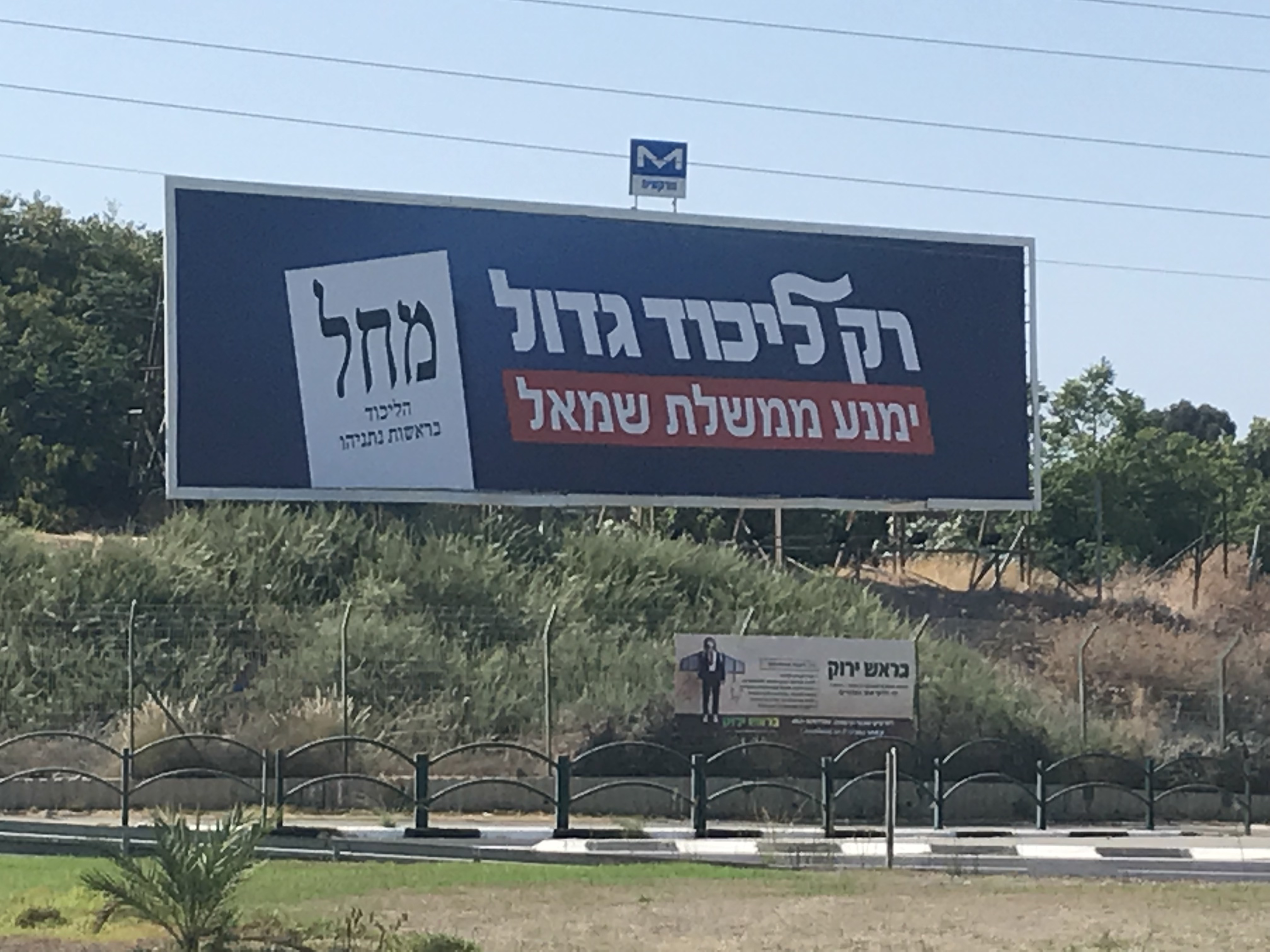 Likud election poster in Hakfar Hayrok junction, Ramat Hashron reads: Only big Likud will prevent leftist government.